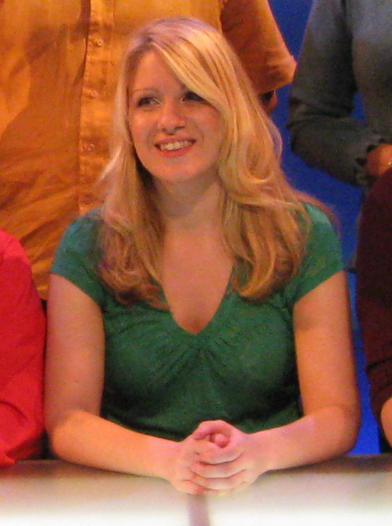 Rachel Parris during filming of BBC2 daytime quiz Show 'Eggheads', as a contestant